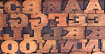 woodtype, wood type, held at Triona Pers (The Netherlands)